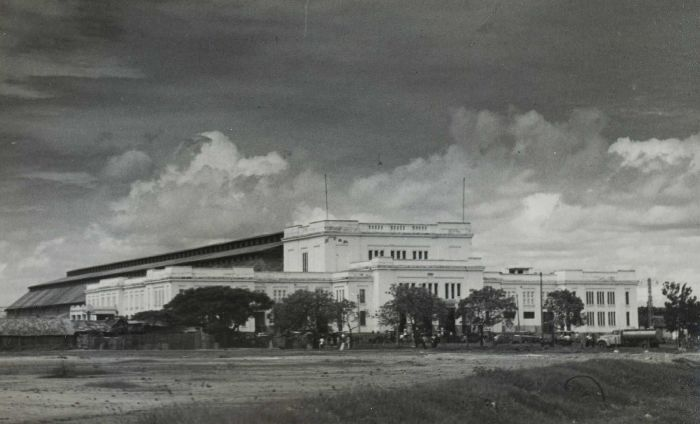 The railway station at Djakarta's harbour Tanjung Priok